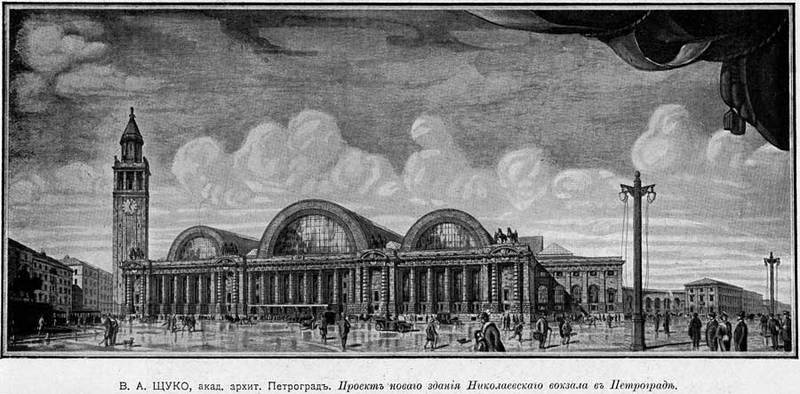 The Project of the Nicholaevsky (Moscow) Railway Station in St Petersburg by Vladimir Shchuko (1878-1939) from the Shchusev Museum of Architecture